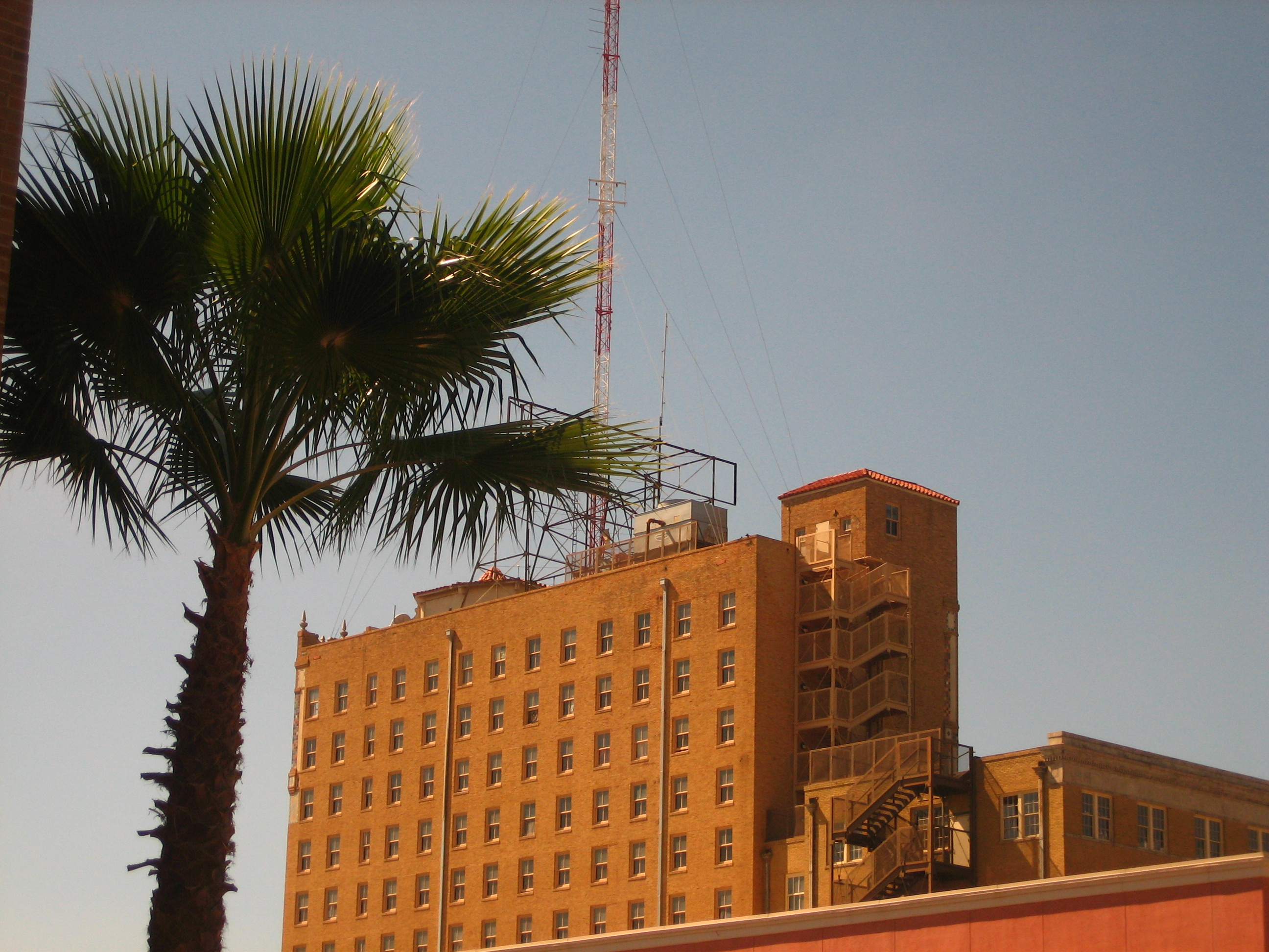 I took photo on Oct. 20, 2008.Billy Hathorn (talk) 03:29, 21 October 2008 (UTC)